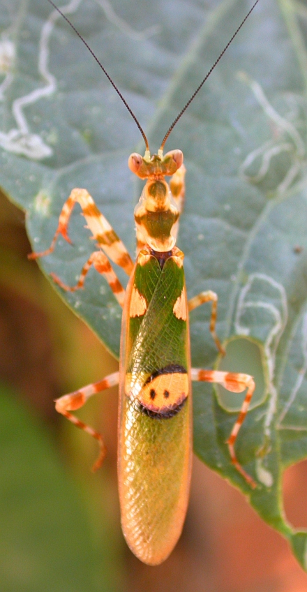 Mantis, Family Hymenopodidae, Genus Creobroter, Wayanad Kerala